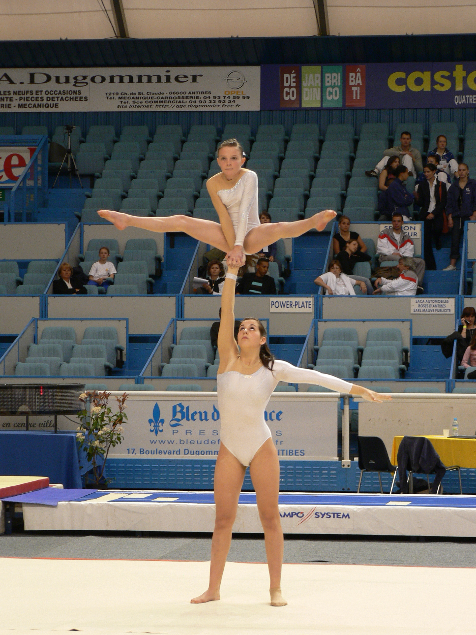 Trampoline club du Dauphiné : Éleonore Lachaud and Clara Guinard performing in 2007